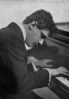 Leo Orstein at a piano, published in Martens, Frederick Herman (1918) "Frontispiece" in Leo Ornstein: The Man — His Ideas — His Work, New York, United States: Breitkopf & Hartel Retrieved on 22 September 2011.